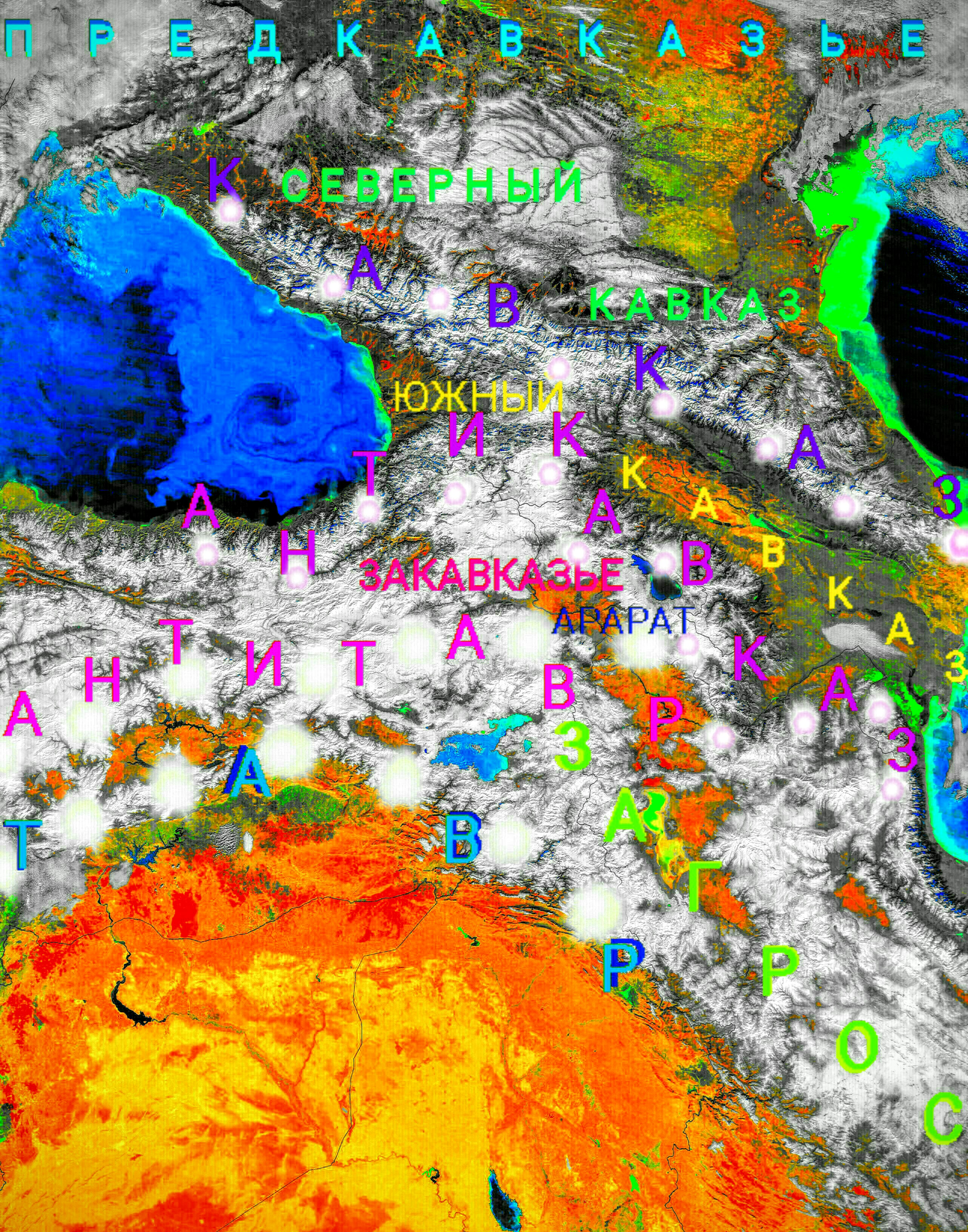 Mountain systems of Middle East